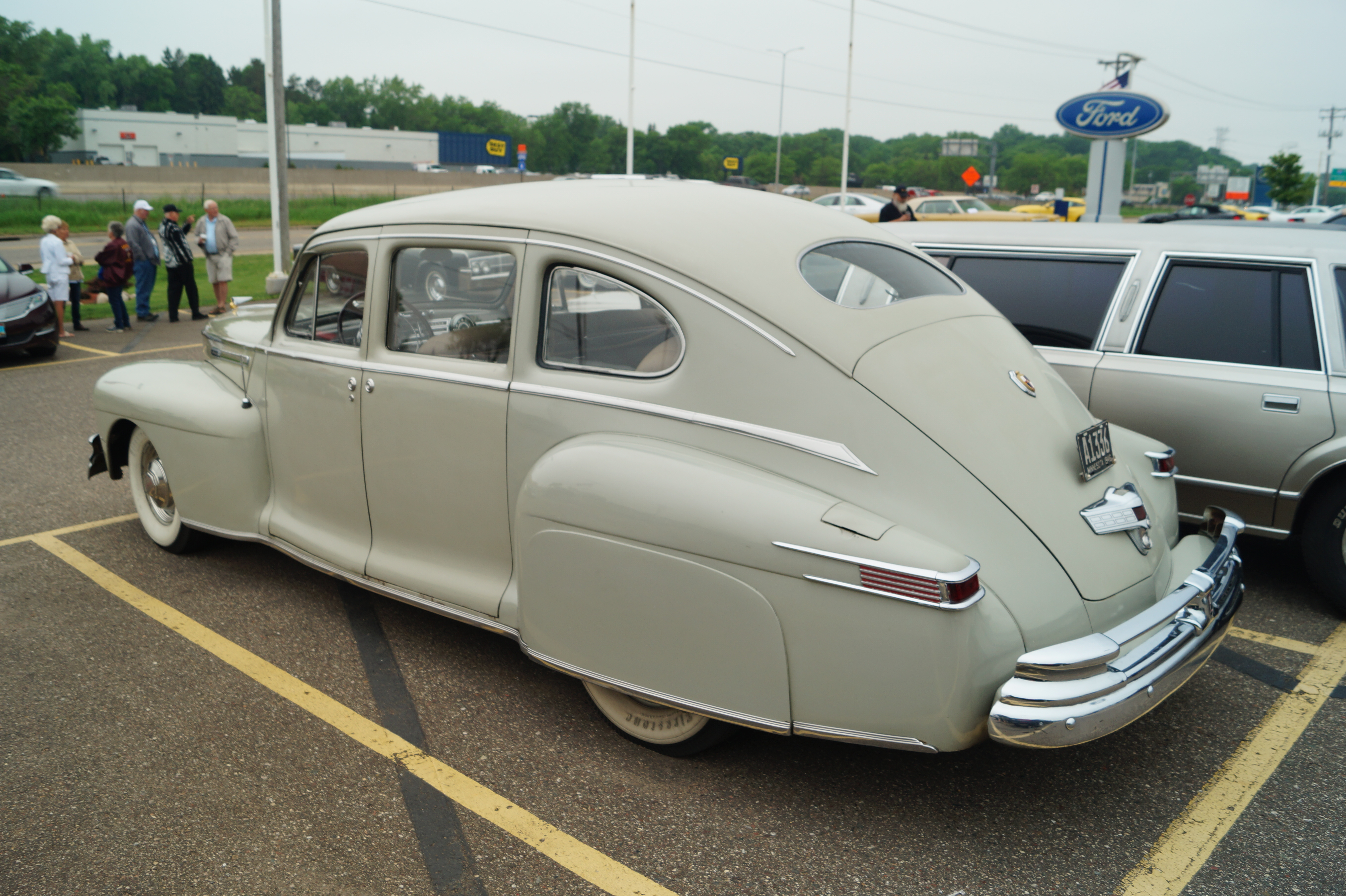 Lincoln & Continental Owners' Club North Star Region 8th Annual Classic Lincoln Car Show Morrie's Minnetonka Ford-Lincoln Minnetonka, Minnesota Click here for more car pictures at my Flickr site.